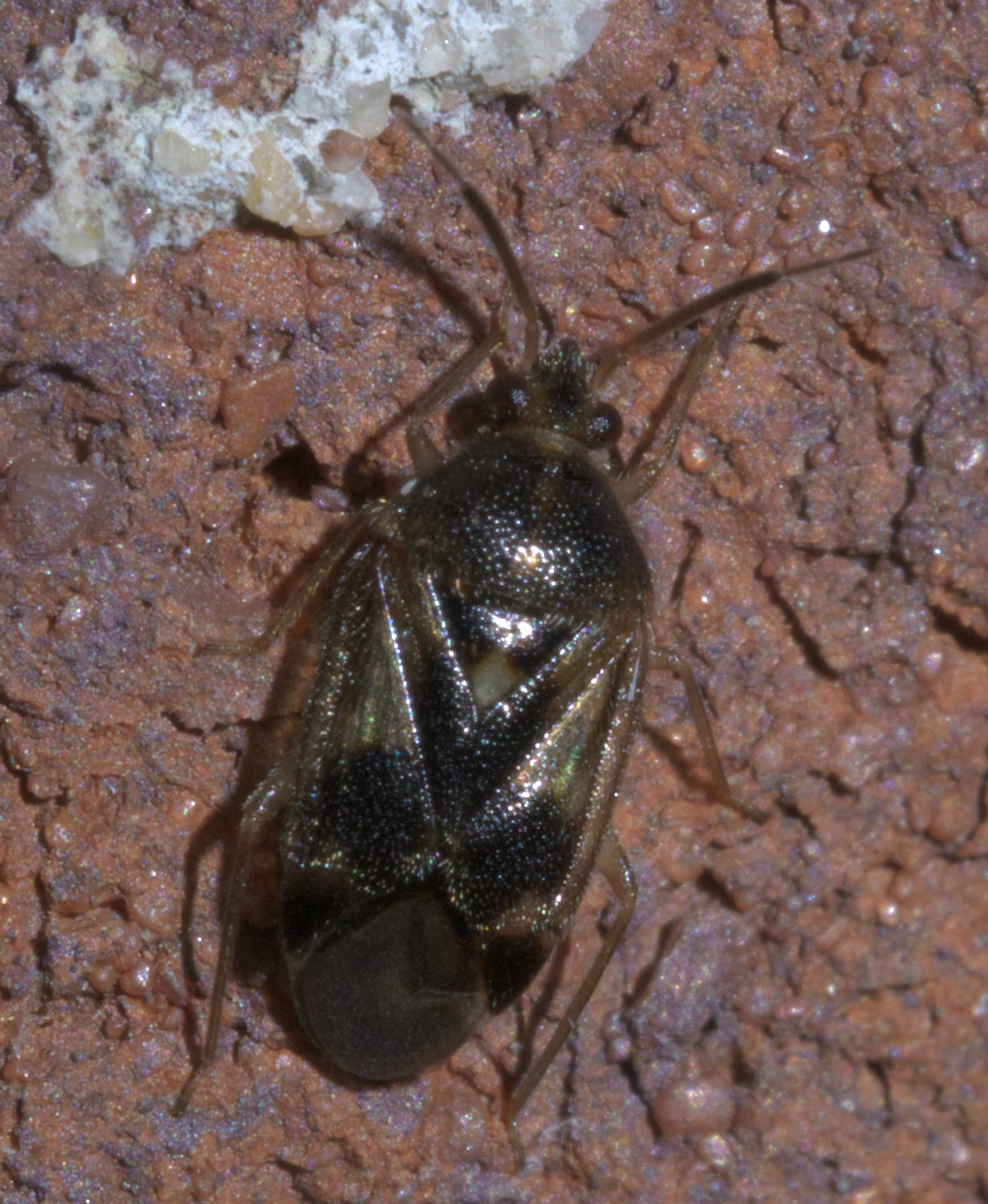 Eurychilopterella luridula, Family: Plant Bugs, Size: 4.3 mm, ID Confidence: 98